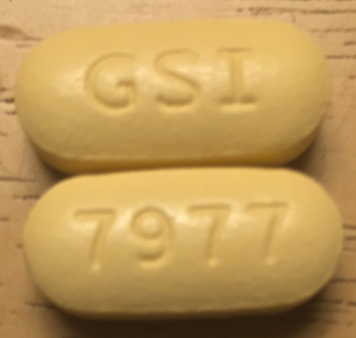 Gilead Sciences